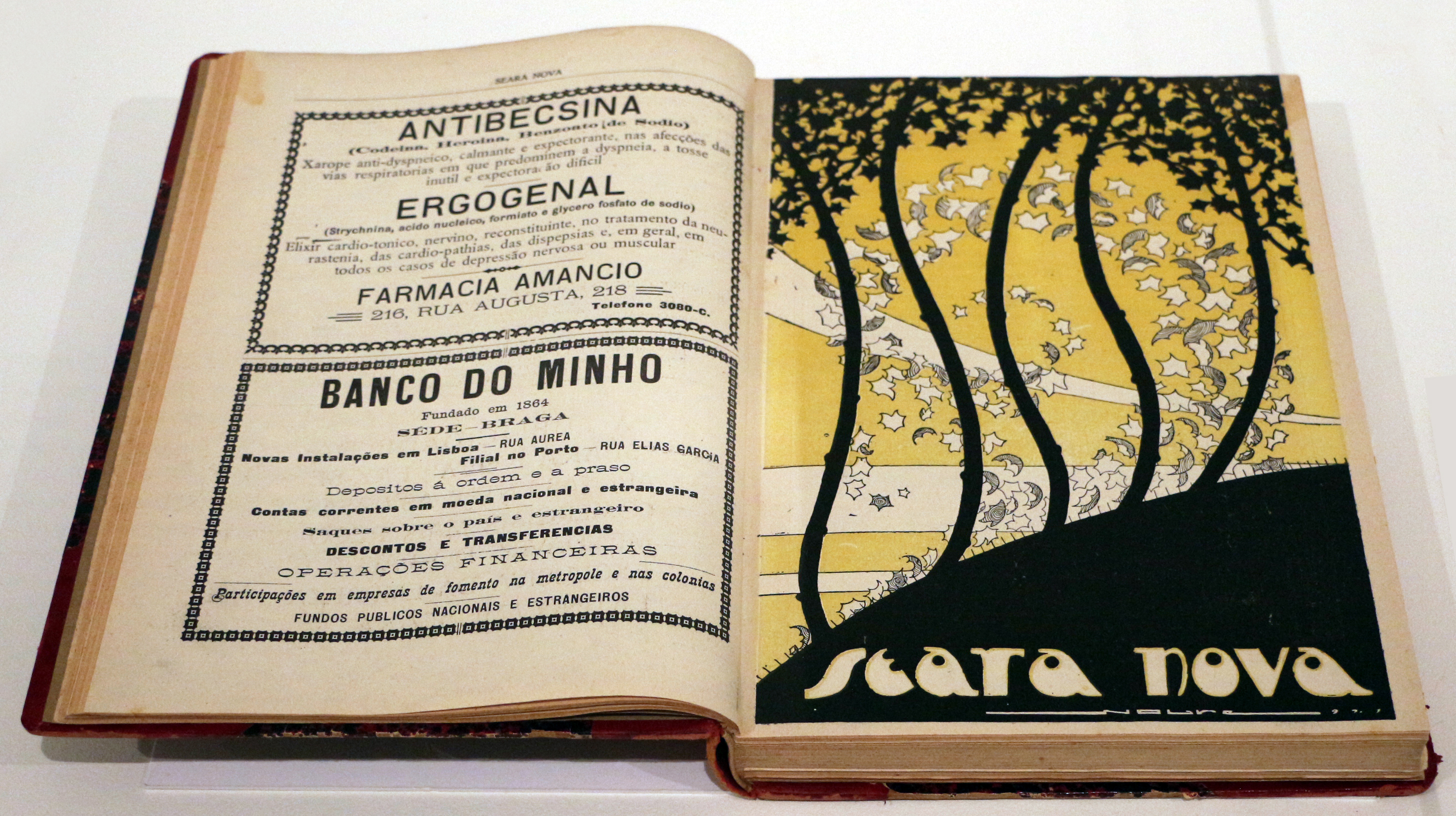 Calouste Gulbenkian Museum